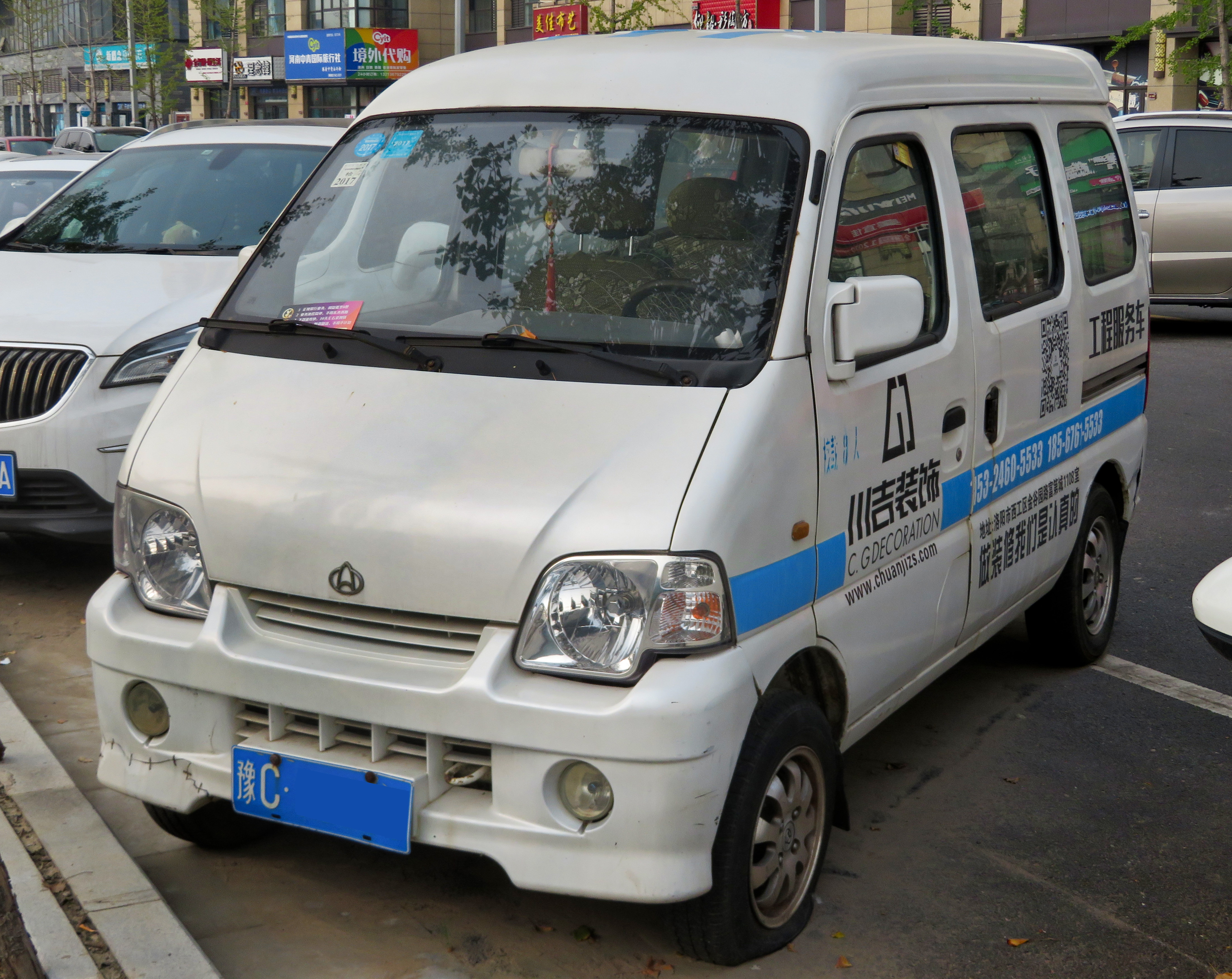 A 2006 Chang'an (Chana) Xingyun SC6360 photographed in Xigong District, Luoyang, Henan province, China